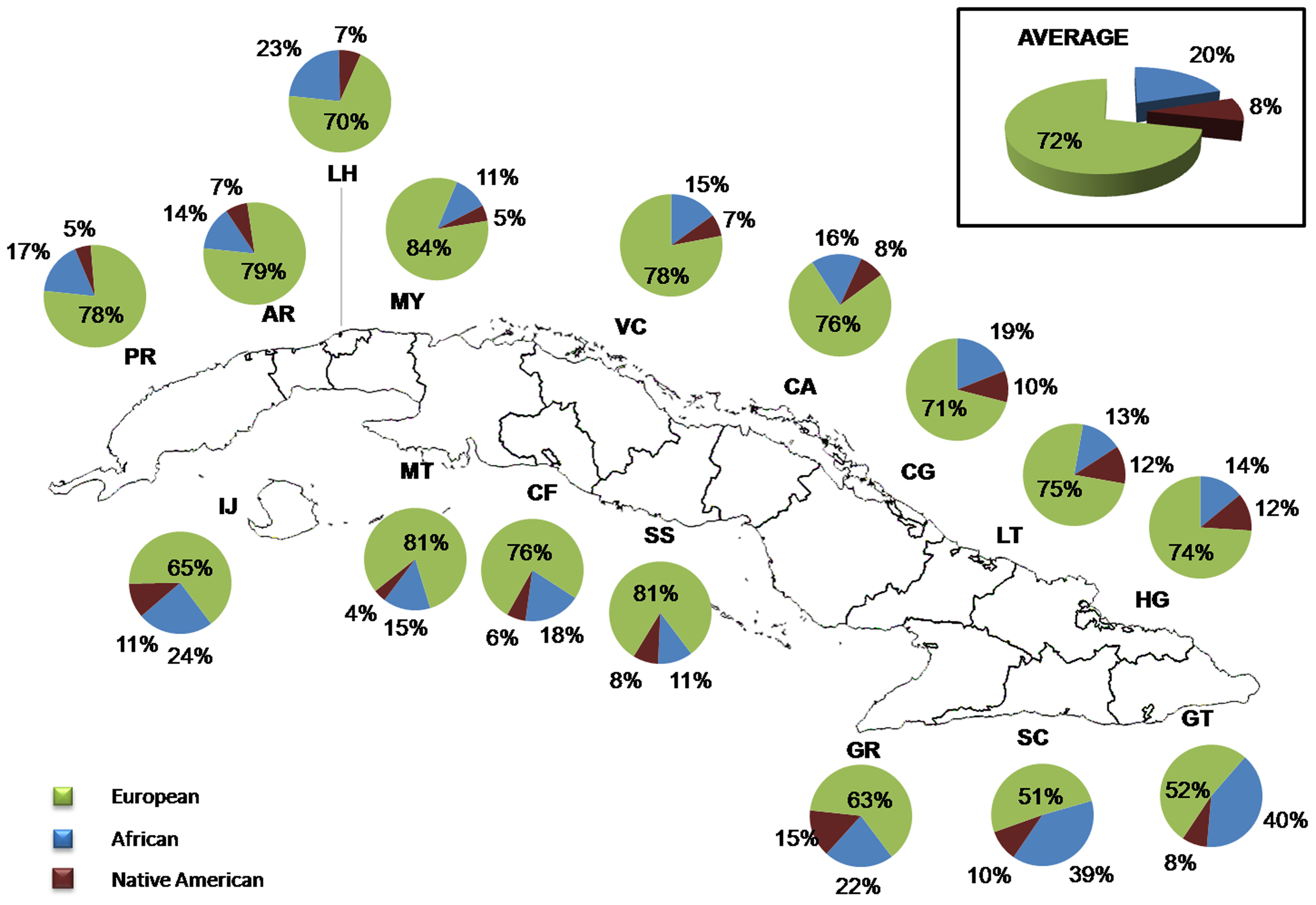 Distribution of ancestral contributions in Cubans as inferred from autosomal AIMs.